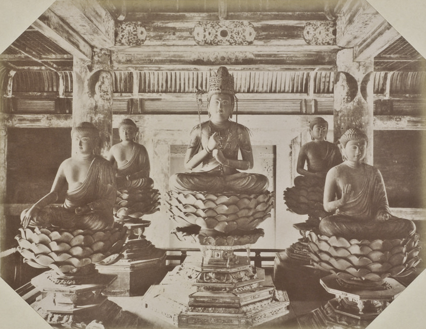 Tahoto Interior, Kongosanmaiin, Koyasan, Wakayama, Japan